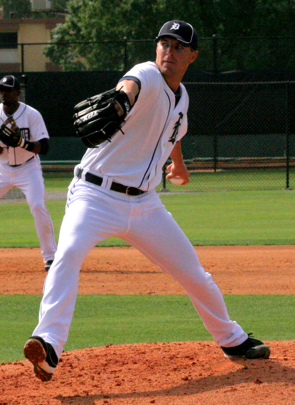 Adam Wilk with the Detroit Tigers, March 31, 2012